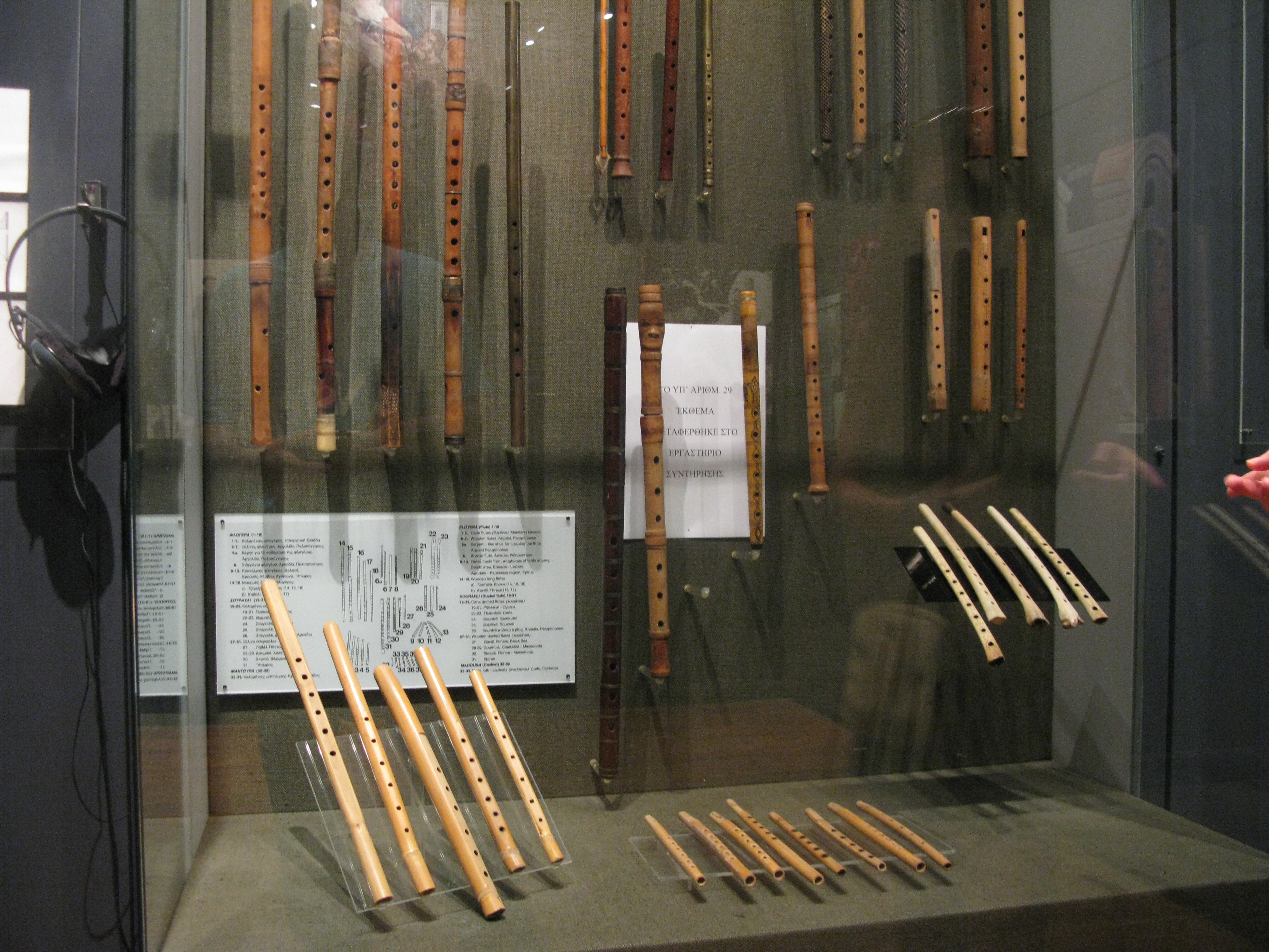 "Floyera" (flutes) Museum of Popular Instruments, Research Centre for Ethnomusicology. In Plaka, Athens, Greece. Official website.